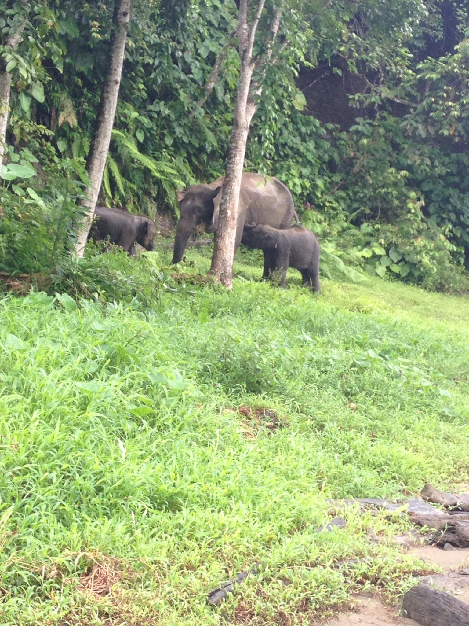 Elephants in Tangkahan (Namu Sialang)